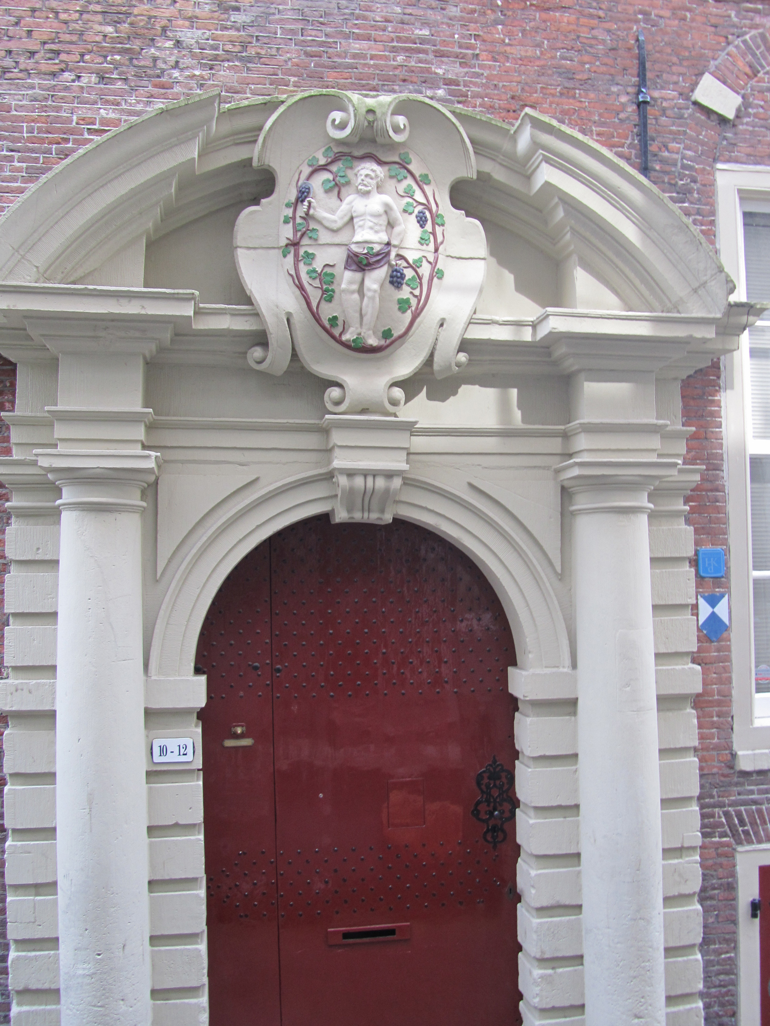 Gate of the Wijnkopersgildehuis at Koestraat 10-12 in Amsterdam, the guild house of the winebuyers' guild.It is one of the few remaining guild houses in Amsterdam. The 1633 gate was designed by Pieter de Keyser. The fronton depicts Pope Urban I